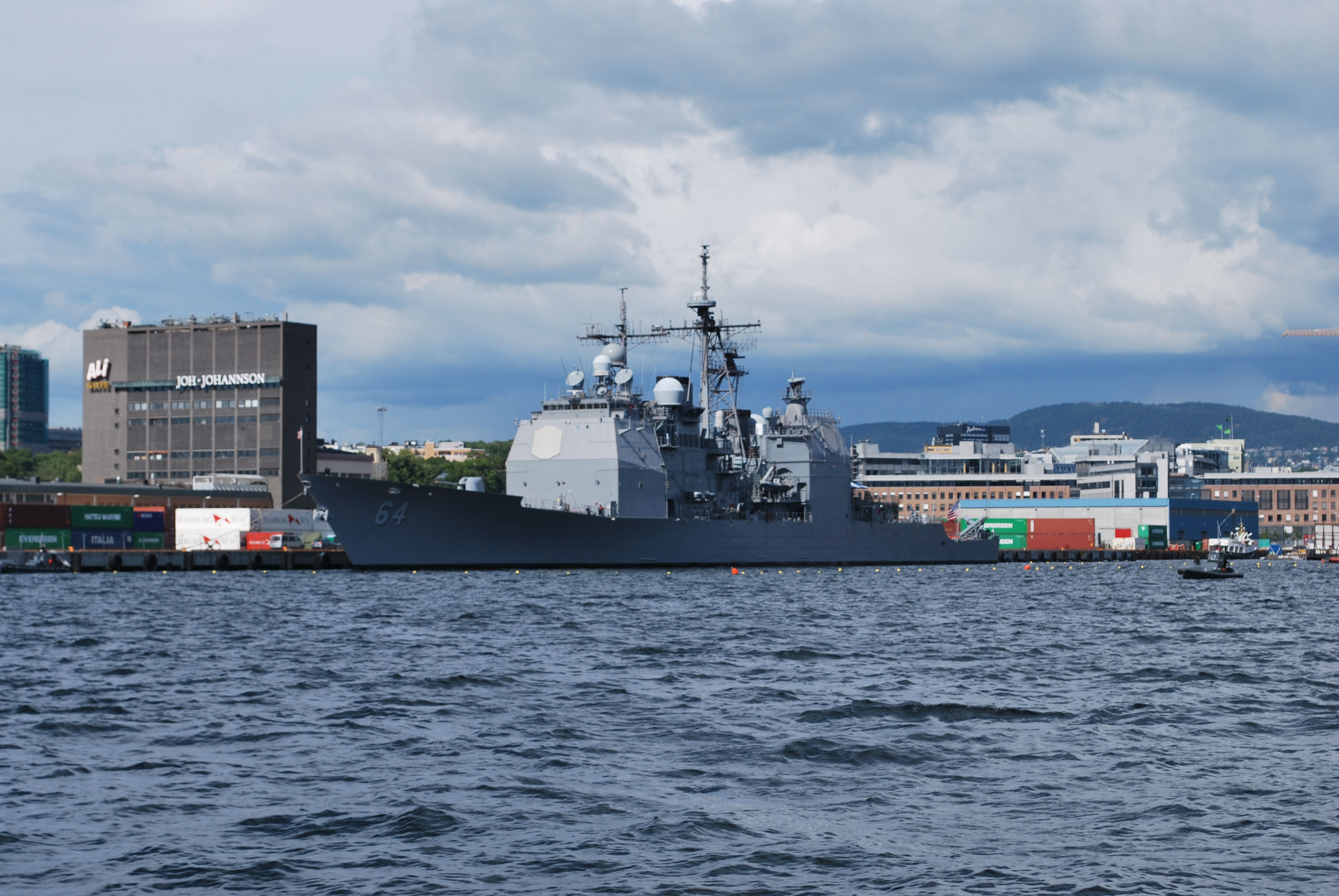 The USS Gettysburg (CG-64) at Oslo Harbour